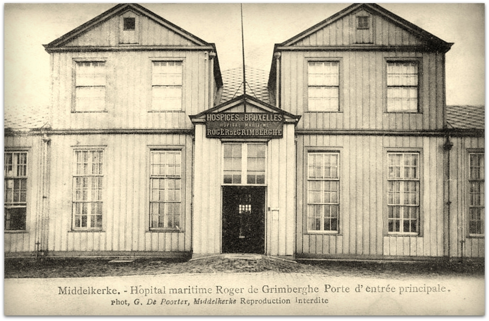 Instituut Eymard Van Hinsbergh